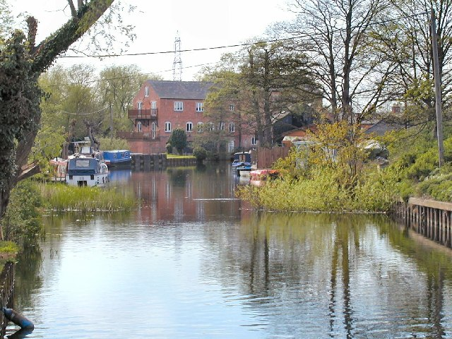 River Soar at Zouch. Looking West